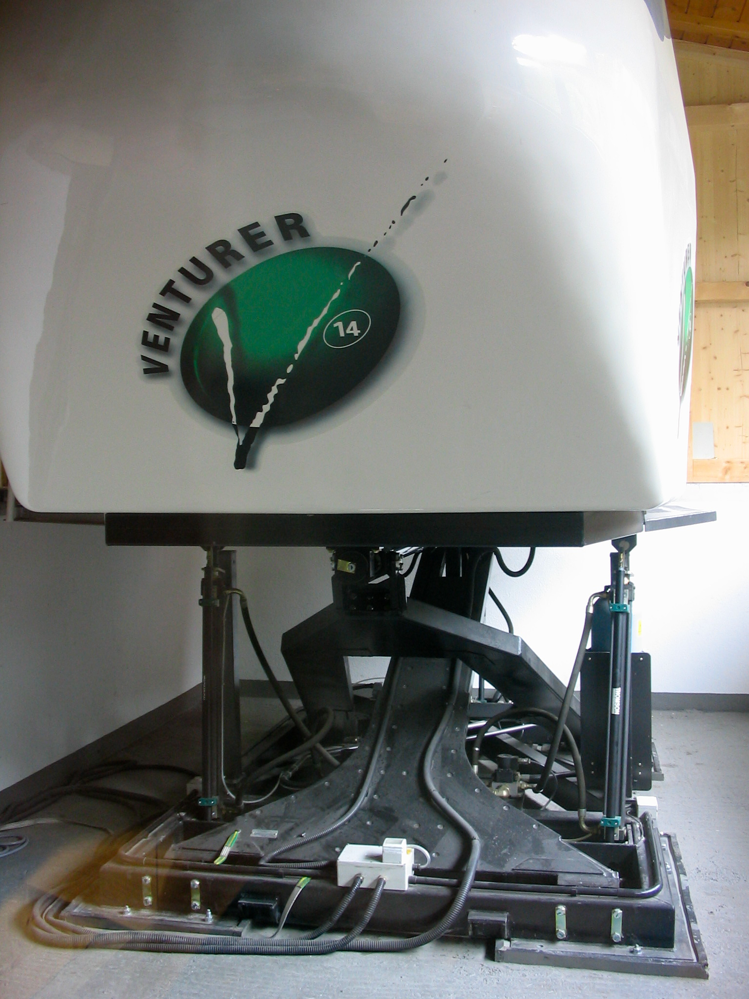 Venturer motion simulator at Steinwasen-Park